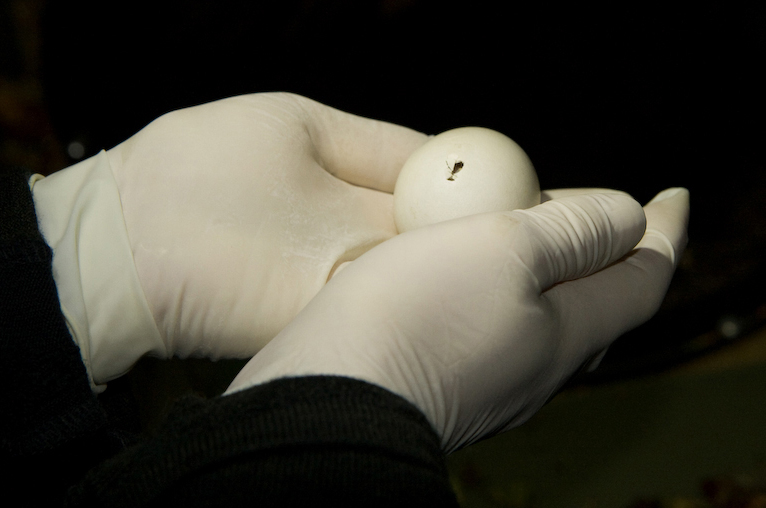 Kakapo "Lisa's" egg hatching, hand held. Photo: Josie Beruldsen, 2008.